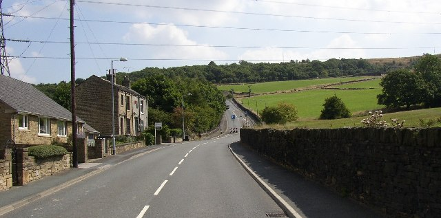 Elland Lower Edge. This is where the ancient road from Elland to Wakefield starts to climb Lower Edge. Note the one-way 'gate' to prevent motor vehicles from entering the residential area at high speed!